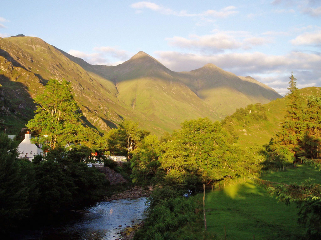 Four of the Five Sisters of Kintail - Sgurr nan Saighead (929 m), Sgurr Fhuaran (1067 m), Sgurr na Carnach (1002 m) and Sgurr na Ciste Duibhe (1027 m) - from Sheil Bridge, Highland region, Scotland. Photo by Blisco, 25 June 2006.